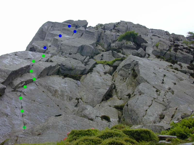 Ogwen; Milestone buttress. W side. 1. Direct route (V Diff; pitch three not visible). Climber (unknown) is seen just starting the hand traverse underneath "the bivalve" towards the end of pitch 2. Picture annotations follow the Wikipedia:WikiProject_Climbing annotation guidelines.